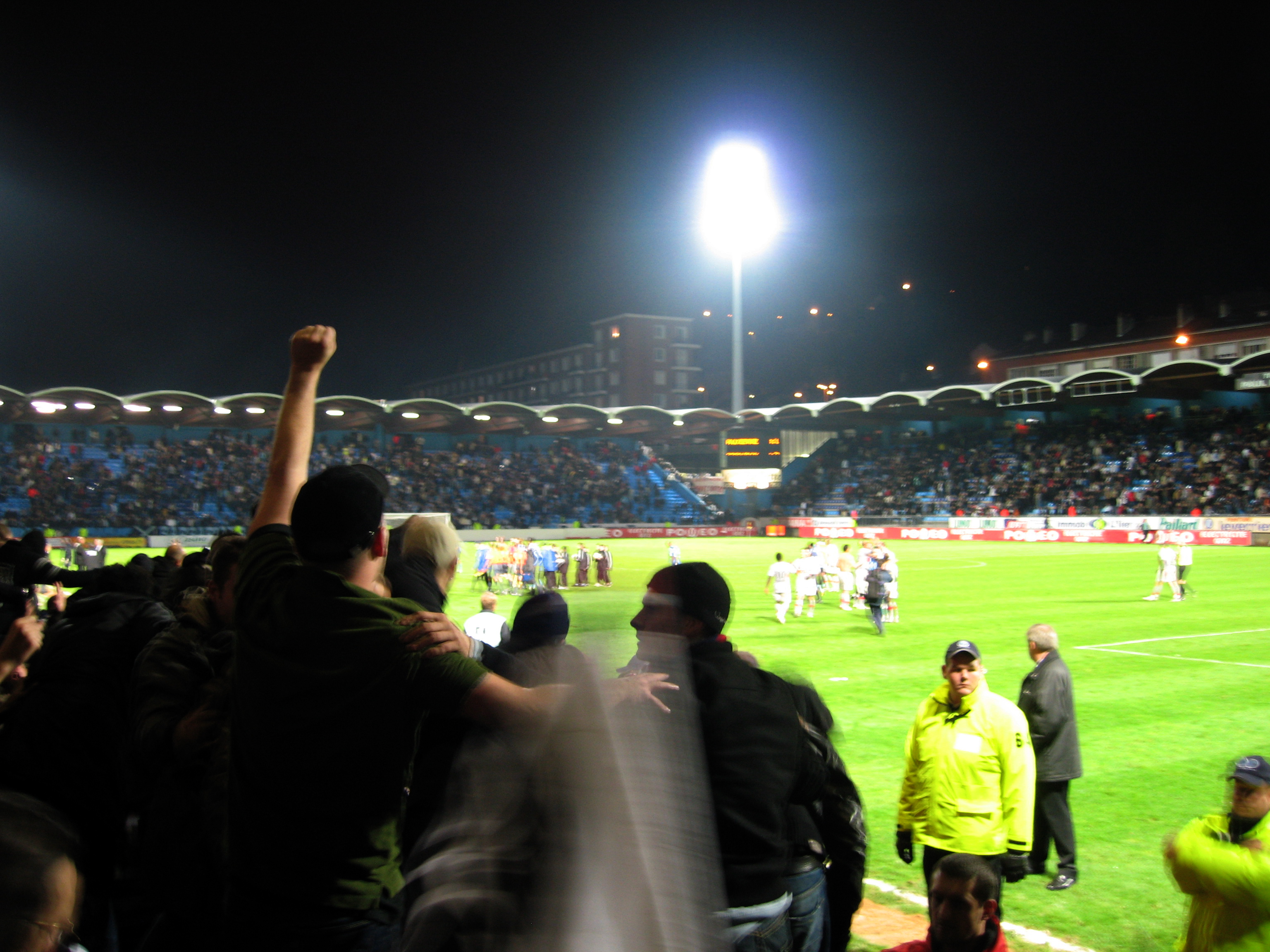 Description Stade Jules-Deschaseaux Date14 November 2008Source Stade Jules-Deschaseaux